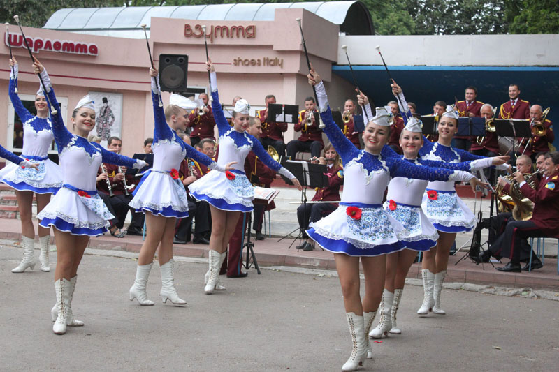 Виступ хмельницьких мажореток "Альфа" у центрі Хмельницького, 2013 р.